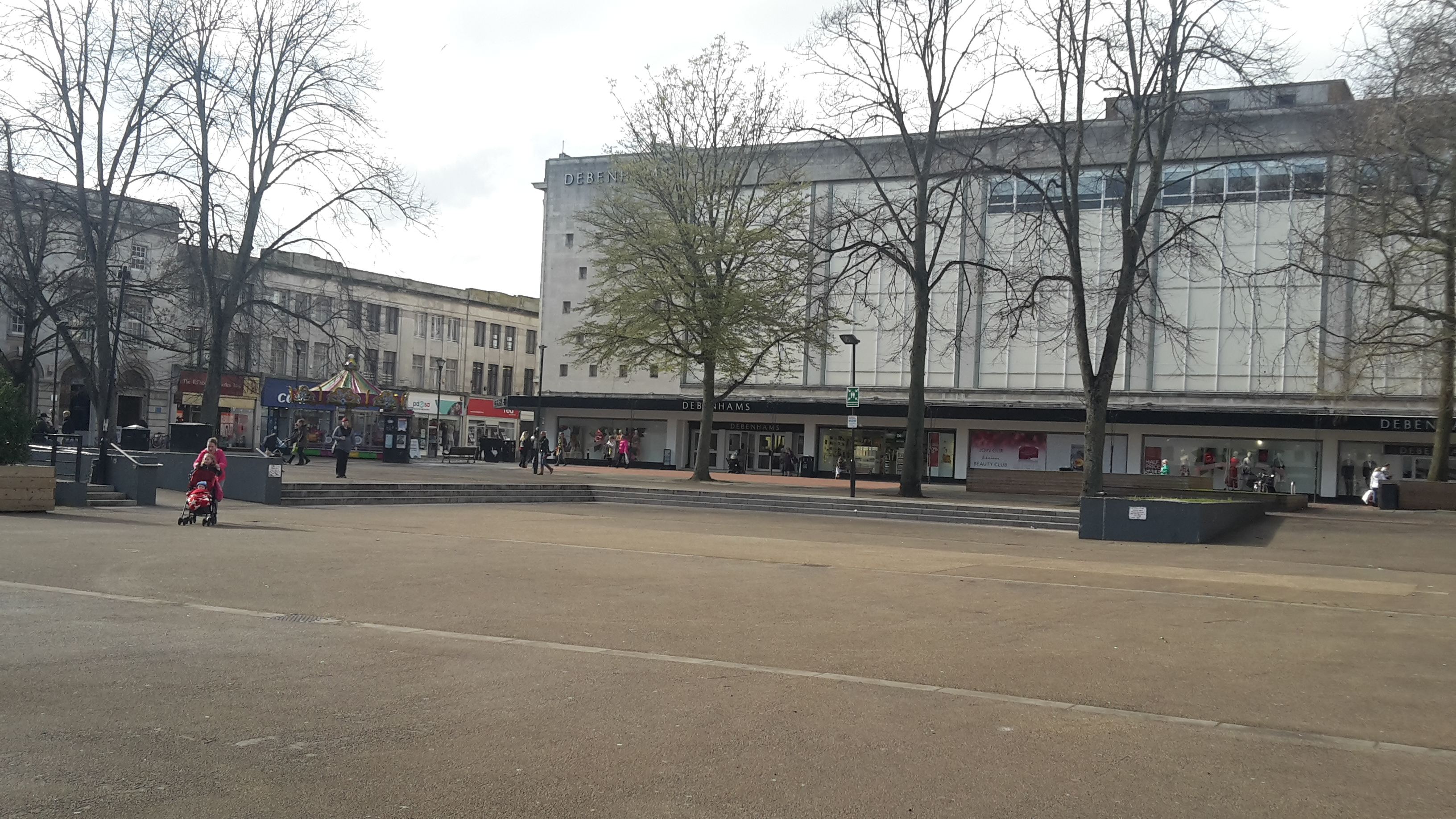 Photo of Kings Square, Gloucester